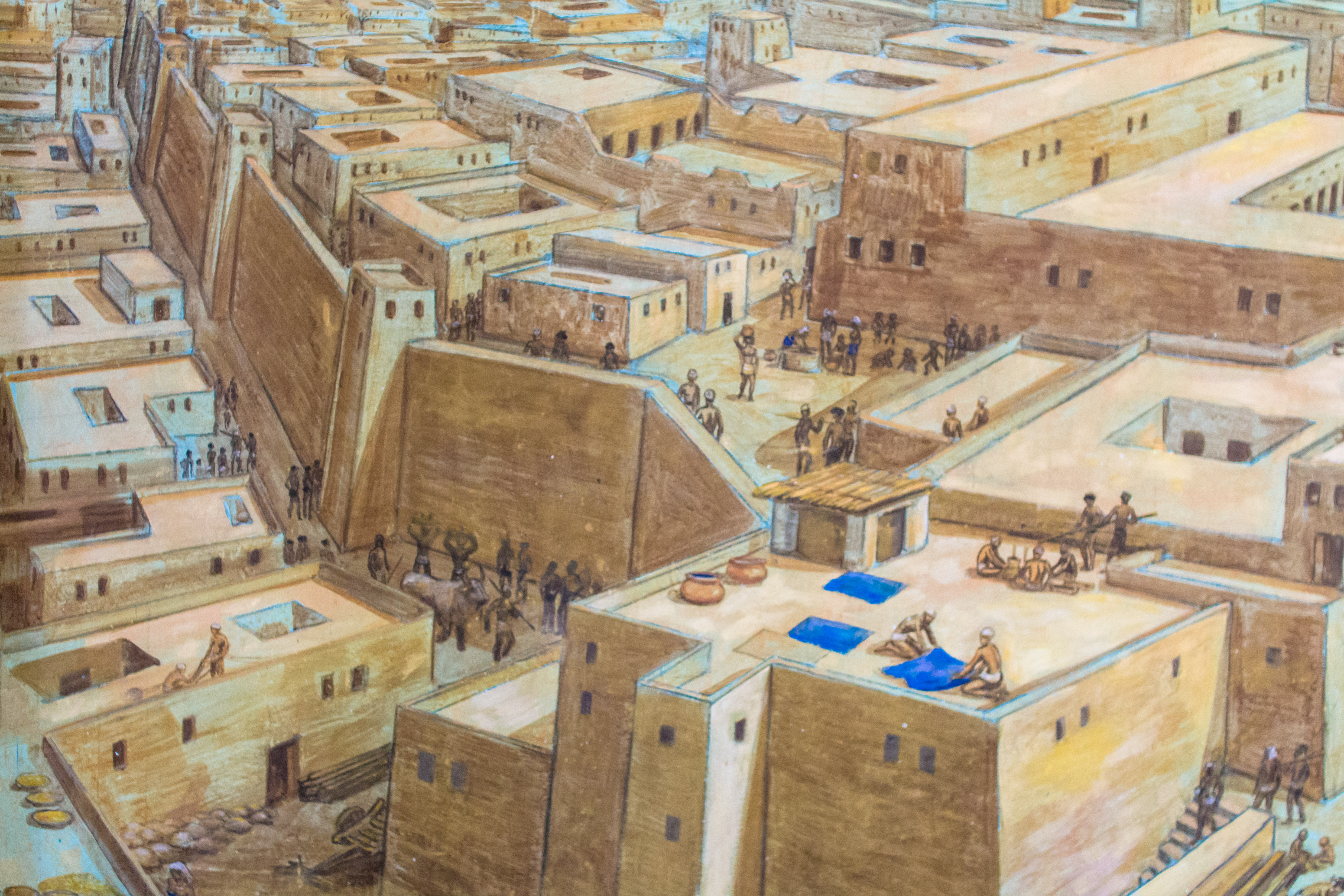 Moenjodaro This is a photo of a monument in Pakistan identified as the SD-41